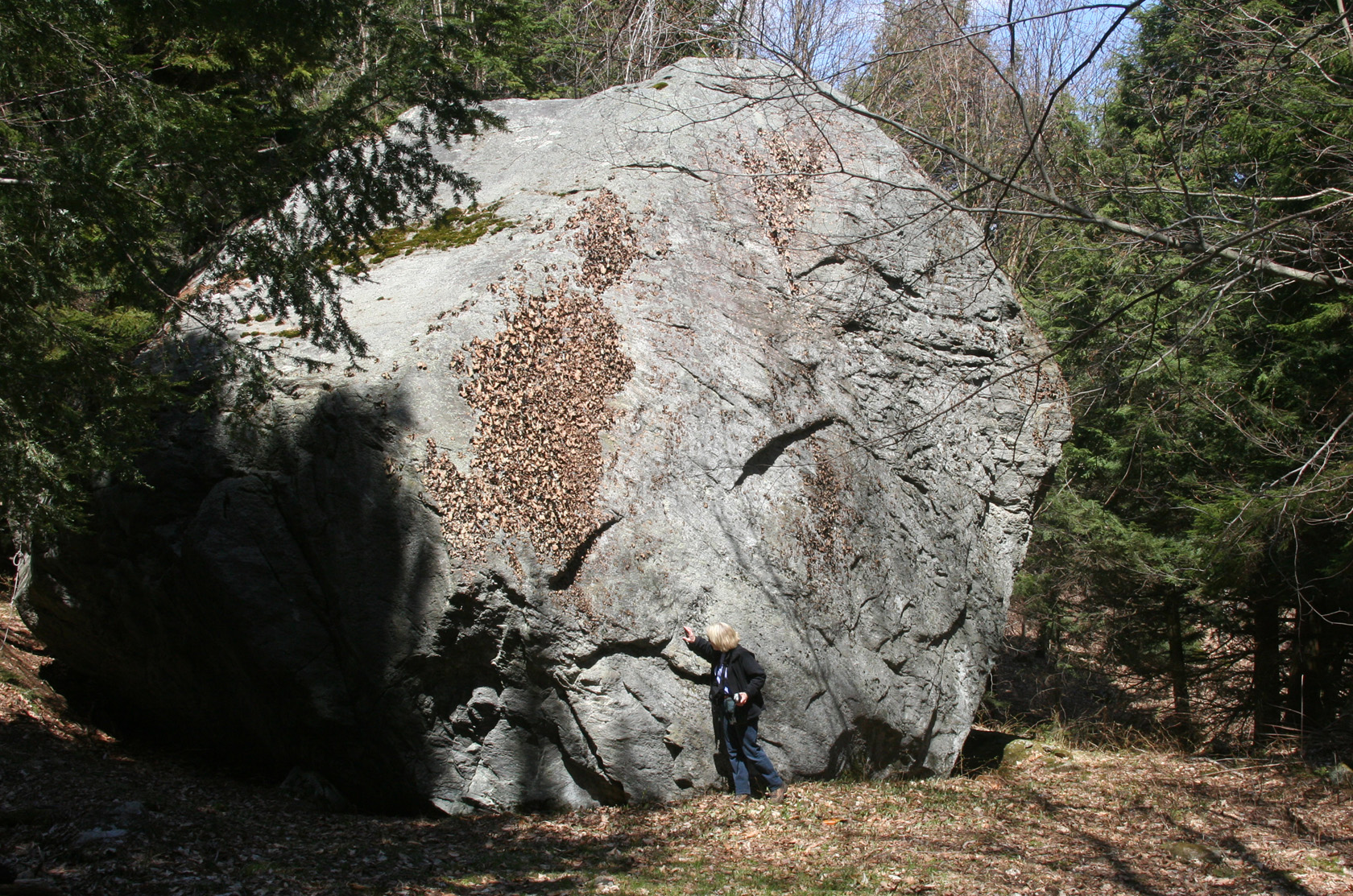 A large glacial erratic from Whitingham, Vermont